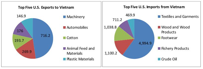 2009 U.S-Vietnam Trade Products ($ million)